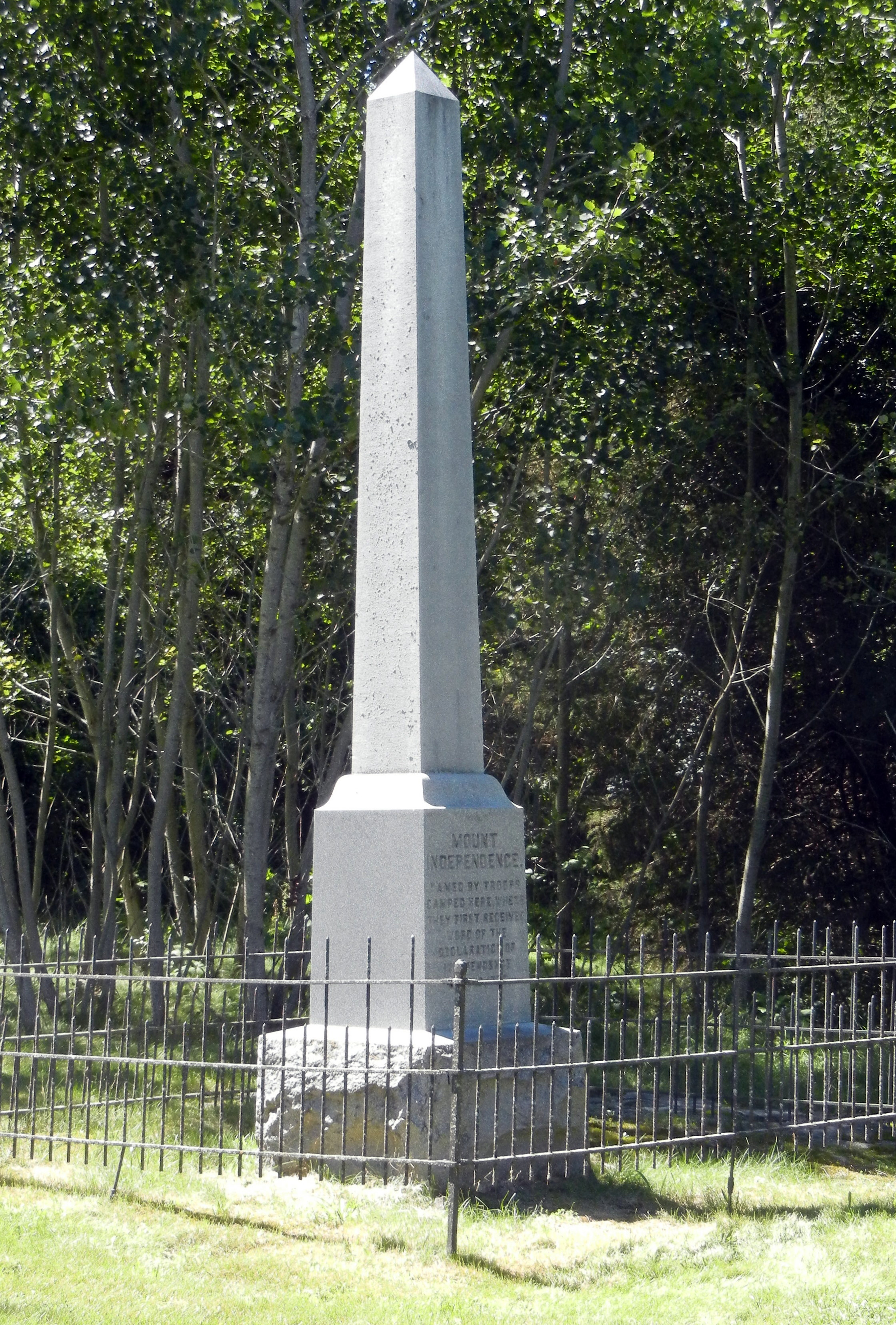 A monument to the soldiers who served on Mount Independence, erected in 1908 by the local chapter of the DAR.